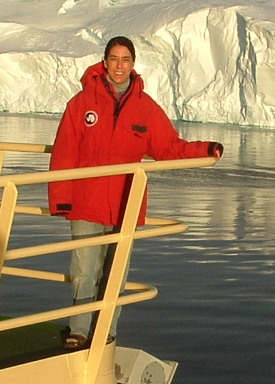 Amy Leventer on bridge wing of RVIB NB Palmer during cruise NBP0702